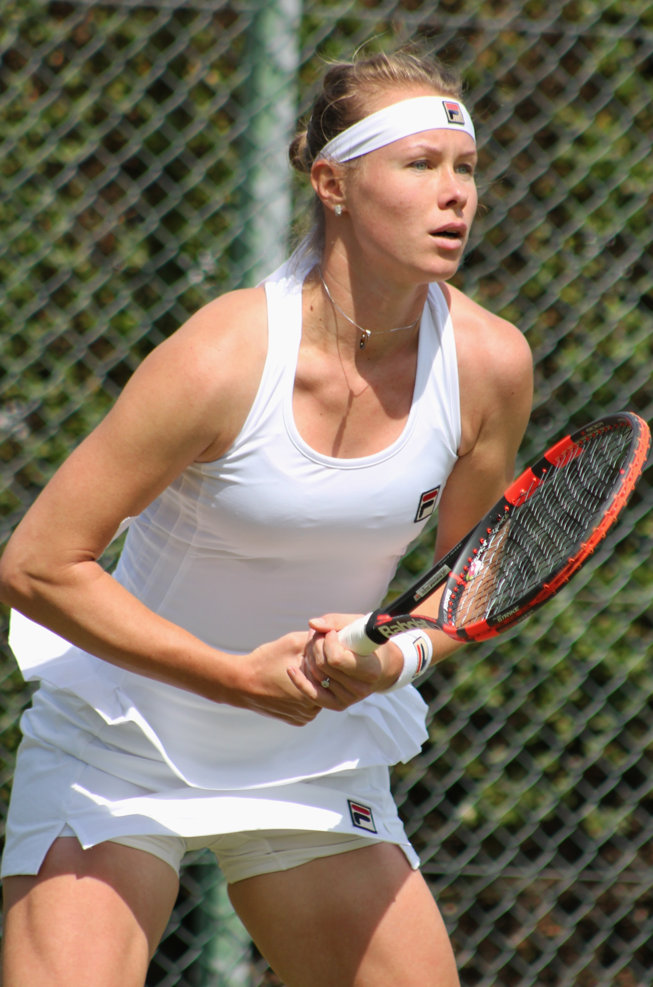 Dushevina WMQ14 (6)